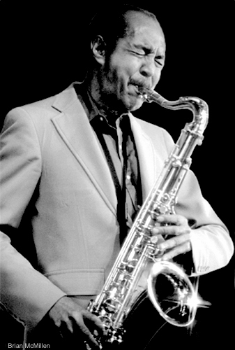 Harold Land at Bach Dancing & Dynamite Society, Half Moon Bay CA 1982. photo: Brian McMillen /